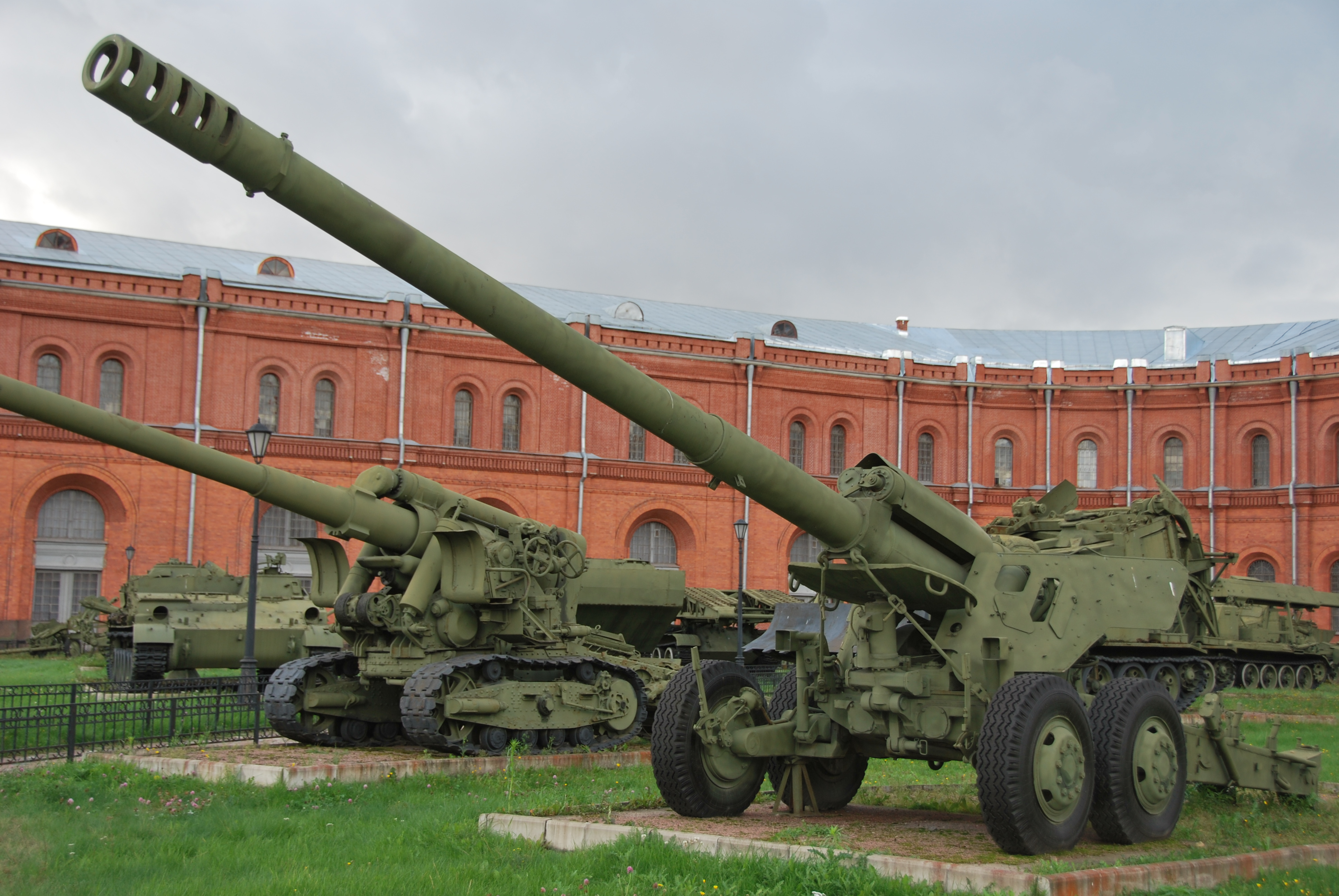 152-mm howitzer 2A36 «Giatsint-B» in Saint-Petersburg Artillery museum